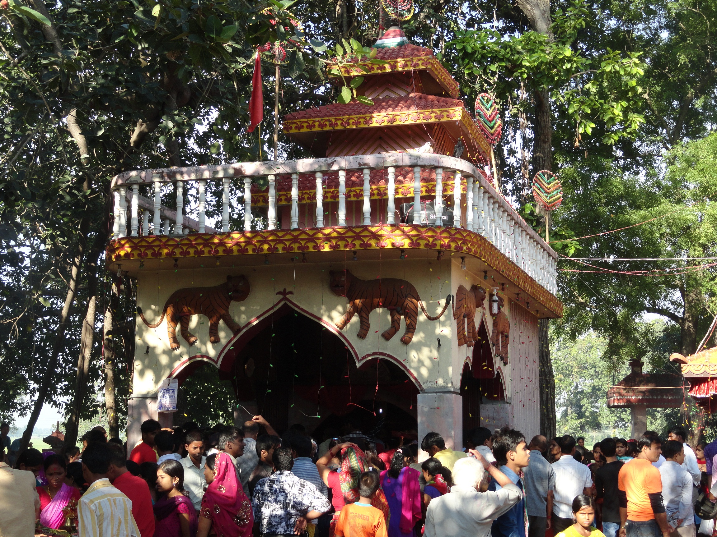 Gadhimai Temple is a temple of the sacred goddesses of power, in Hindu religion. The temple is situated in Gadhimai Municipality in Bara District of mid-north Nepal.